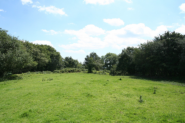 Membury: Membury Castle The site of an iron age hillfort now ringed by trees; accessible by public footpaths. It stands 200m high above sea level with Membury village to the west, where the hill slope is steeper. The original entrances were in the south western corner and part of the way along the eastern rampart. Looking south